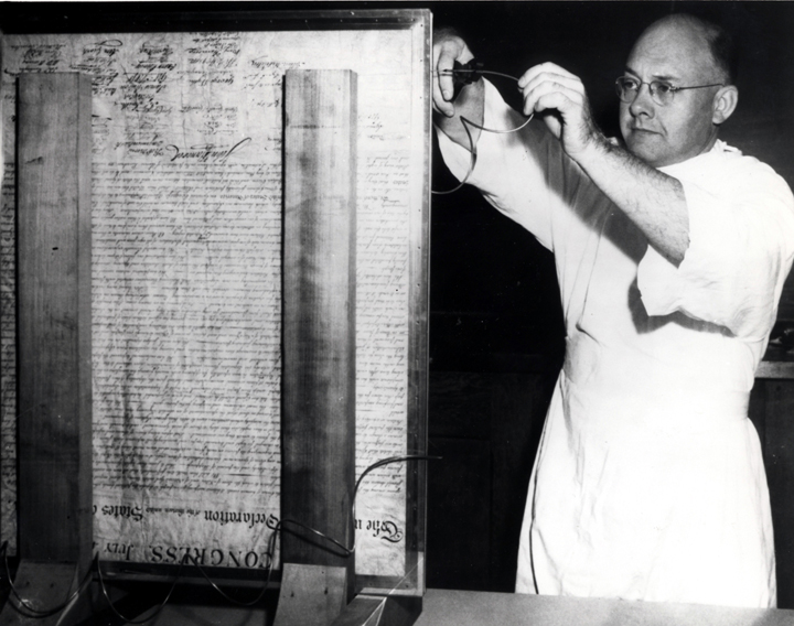 National Bureau of Standards preserving the United States Declaration of Independence in 1951. Source: Department of Commerce Photographic Services